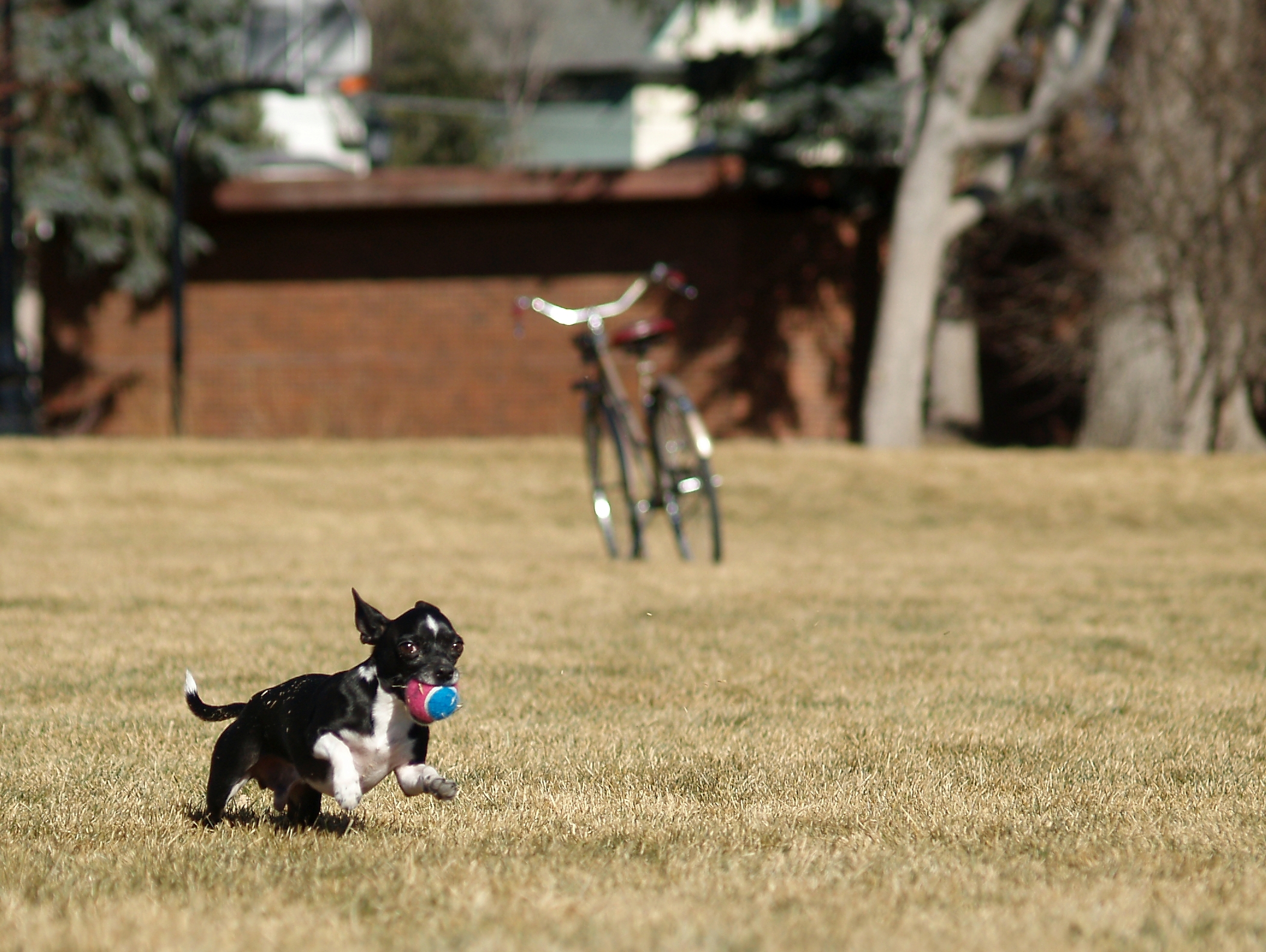 A dog fetching a ball and returning it to its owner.